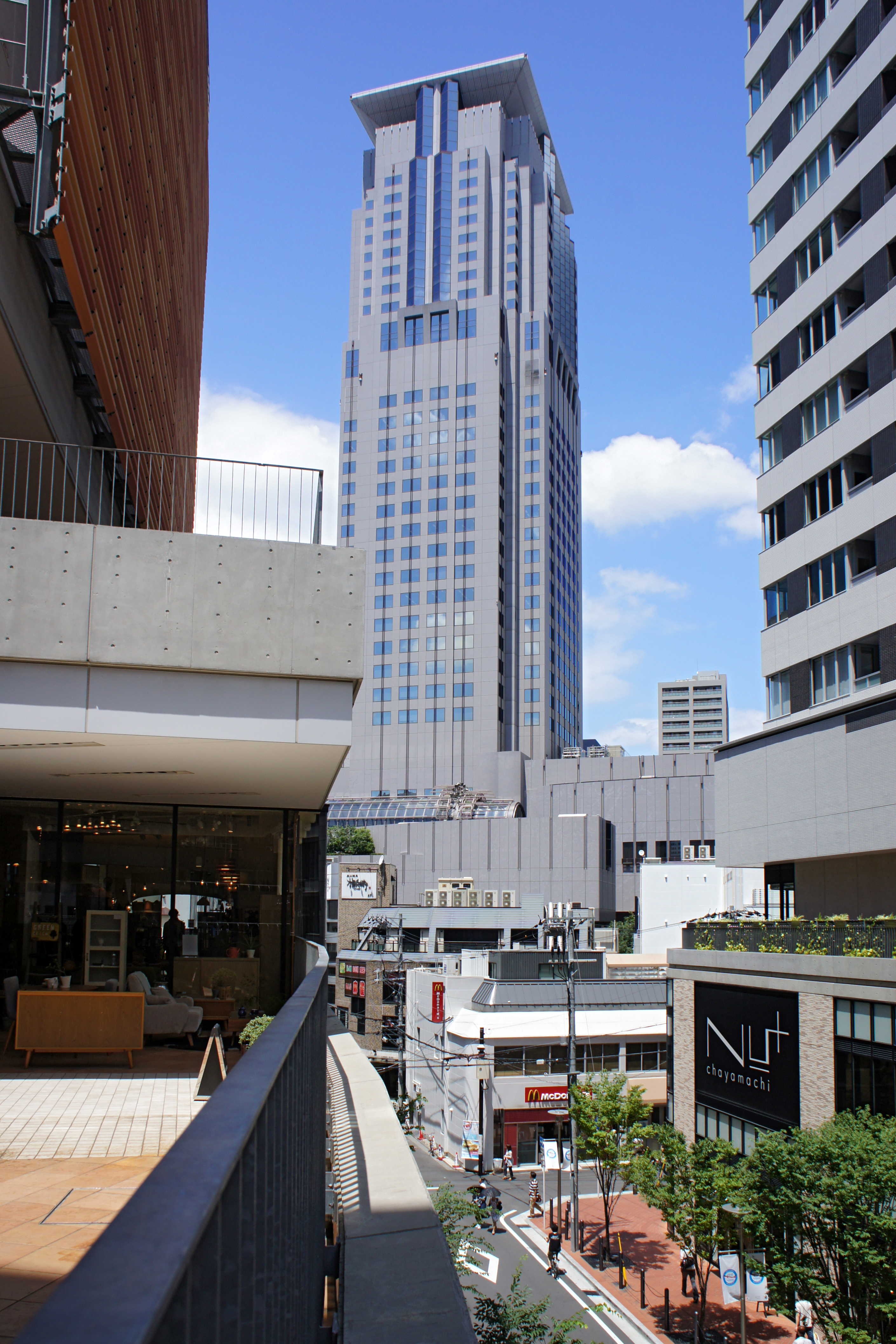 at Chayamachi, Kita-ku, Osaka, Osaka prefecture, Japan